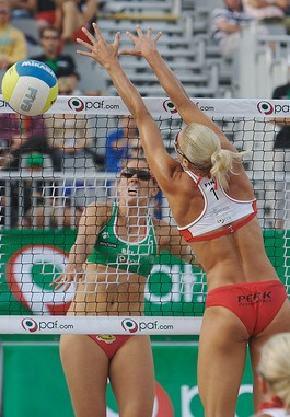 Finland top-beachvolleyball player Riikka Lehtonen